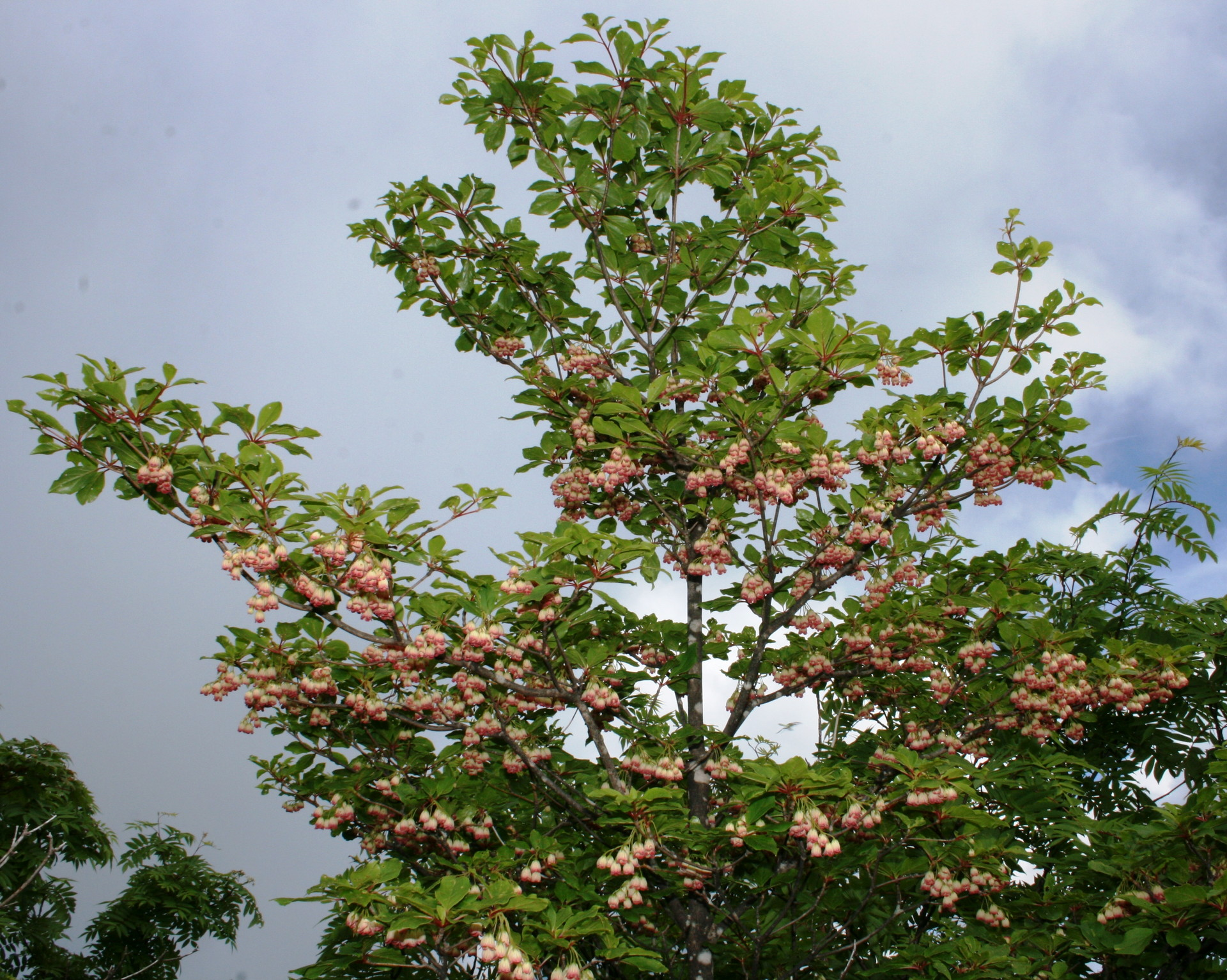 Enkianthus campanulatus in Mount Kohide